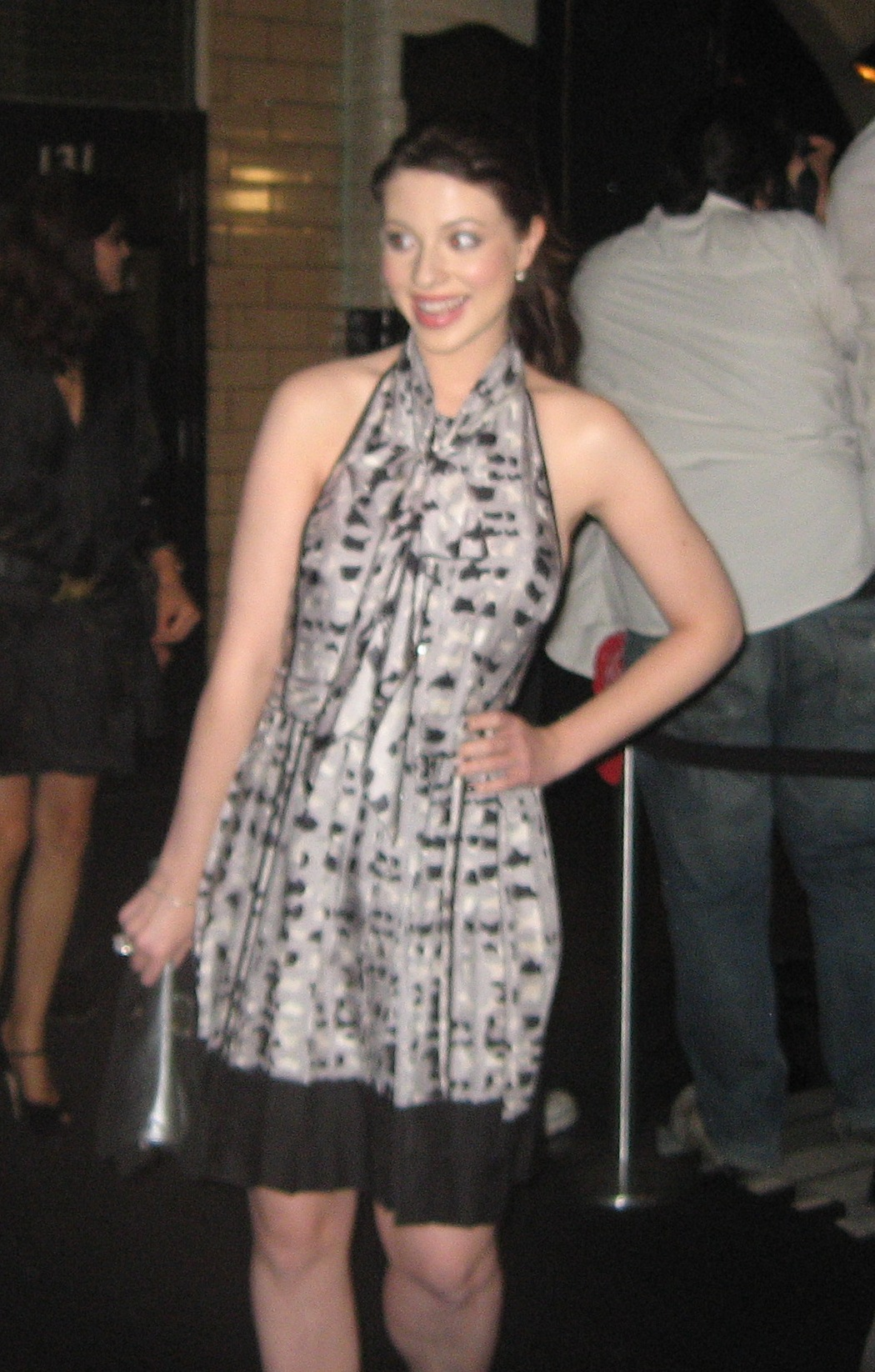 Michelle Trachtenberg at the 2007 Marc Jacobs show during Fashion Week